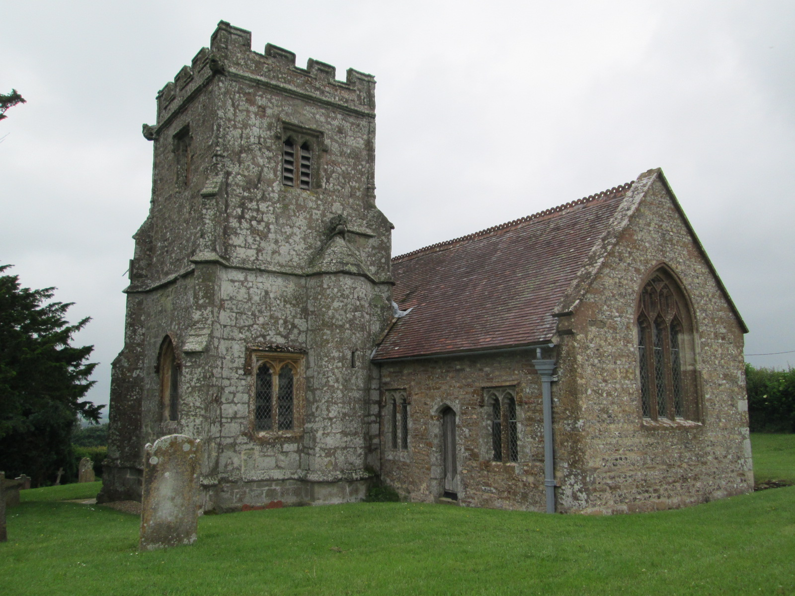 St Aldhelm's Church, in Belchalwell, Dorset, viewed from the south-east.